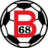 B68 Toftir's Logo.